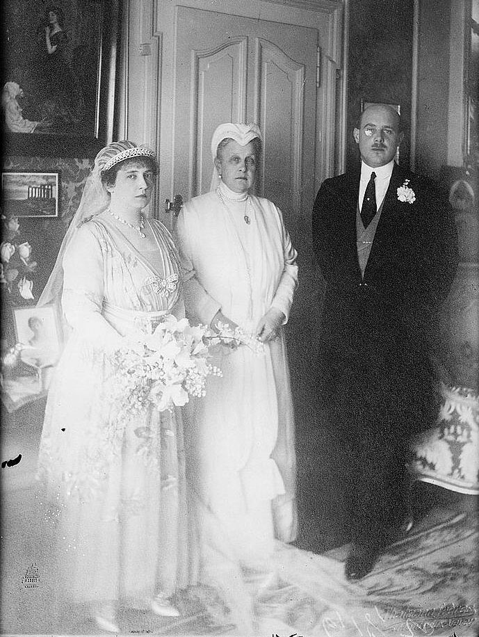 Bain News Service,, publisher. Princess Anastasia, Prince Christopher and Dowager Queen of Greece [1920] 1 negative : glass ; 5 x 7 in. or smaller. Notes: Title from unverified data provided by the Bain News Service on the negatives or caption cards. Forms part of: George Grantham Bain Collection (Library of Congress). Format: Glass negatives. Repository: Library of Congress, Prints and Photographs Division, Washington, D.C. 20540 USA, General information about the Bain Collection is available at Persistent URL: Call Number: LC-B2- 2443-2